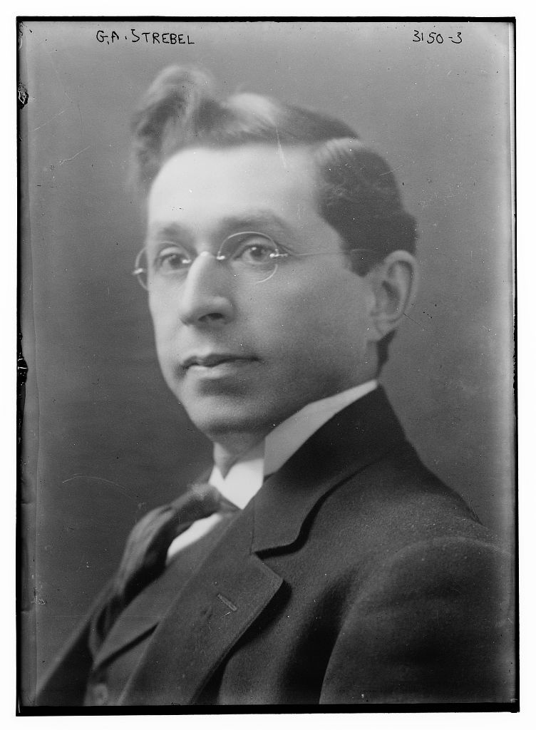 Gustave Adolph Strebel circa 1915